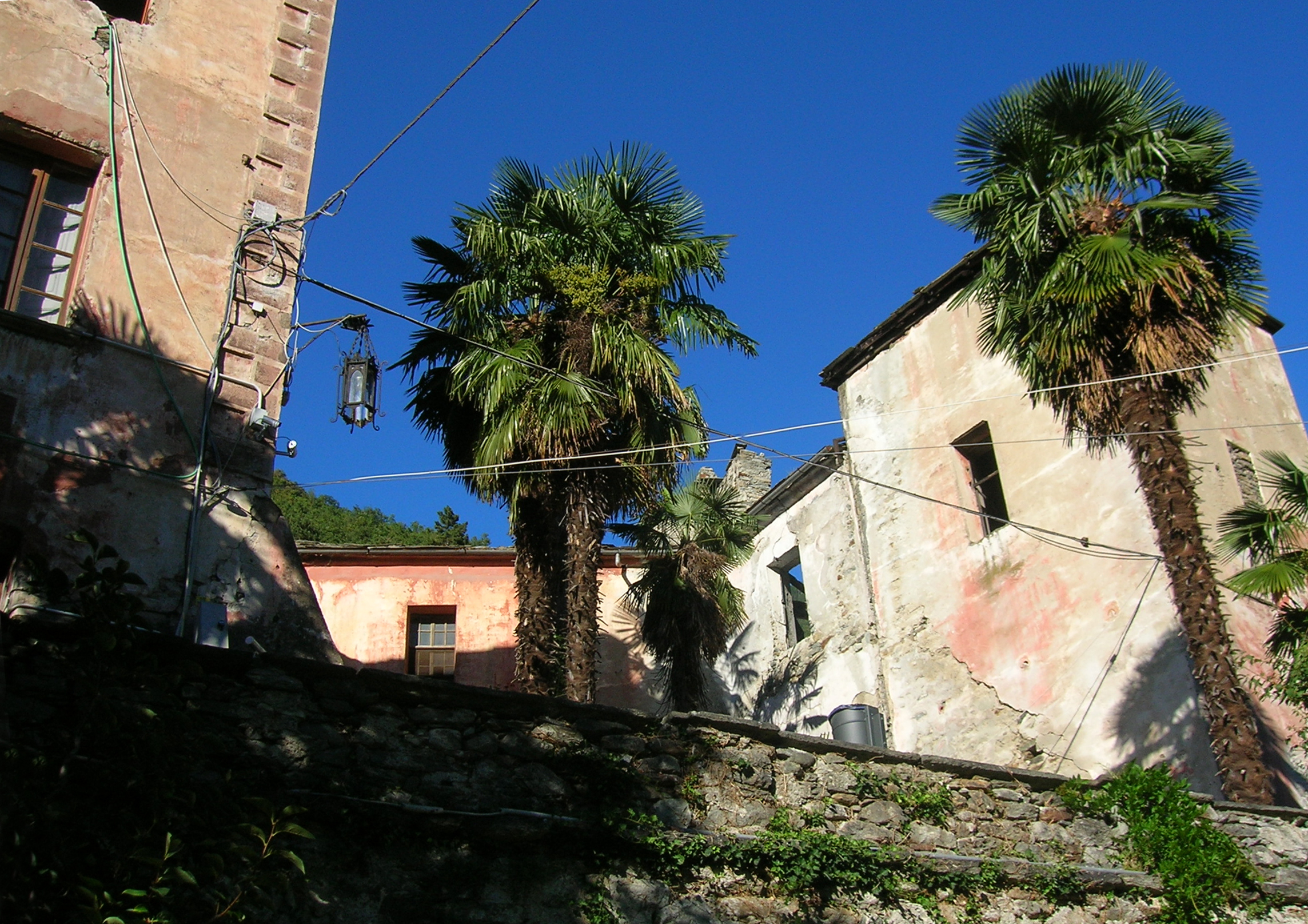 Detail of "Vallaise's Castle" or "Lower Castle" in Arnad, Valle d'Aosta, Italy.